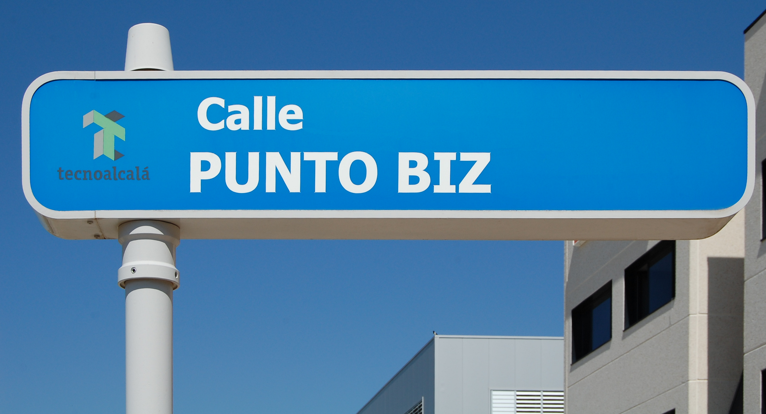 Street sign dedicated to domain name .biz, in Alcalá de Henares (Community of Madrid - Spain).